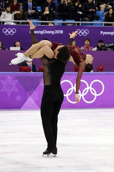 Tessa Virtue and Scott Moir at the 2018 Winter Olympic Games in PyeongChang